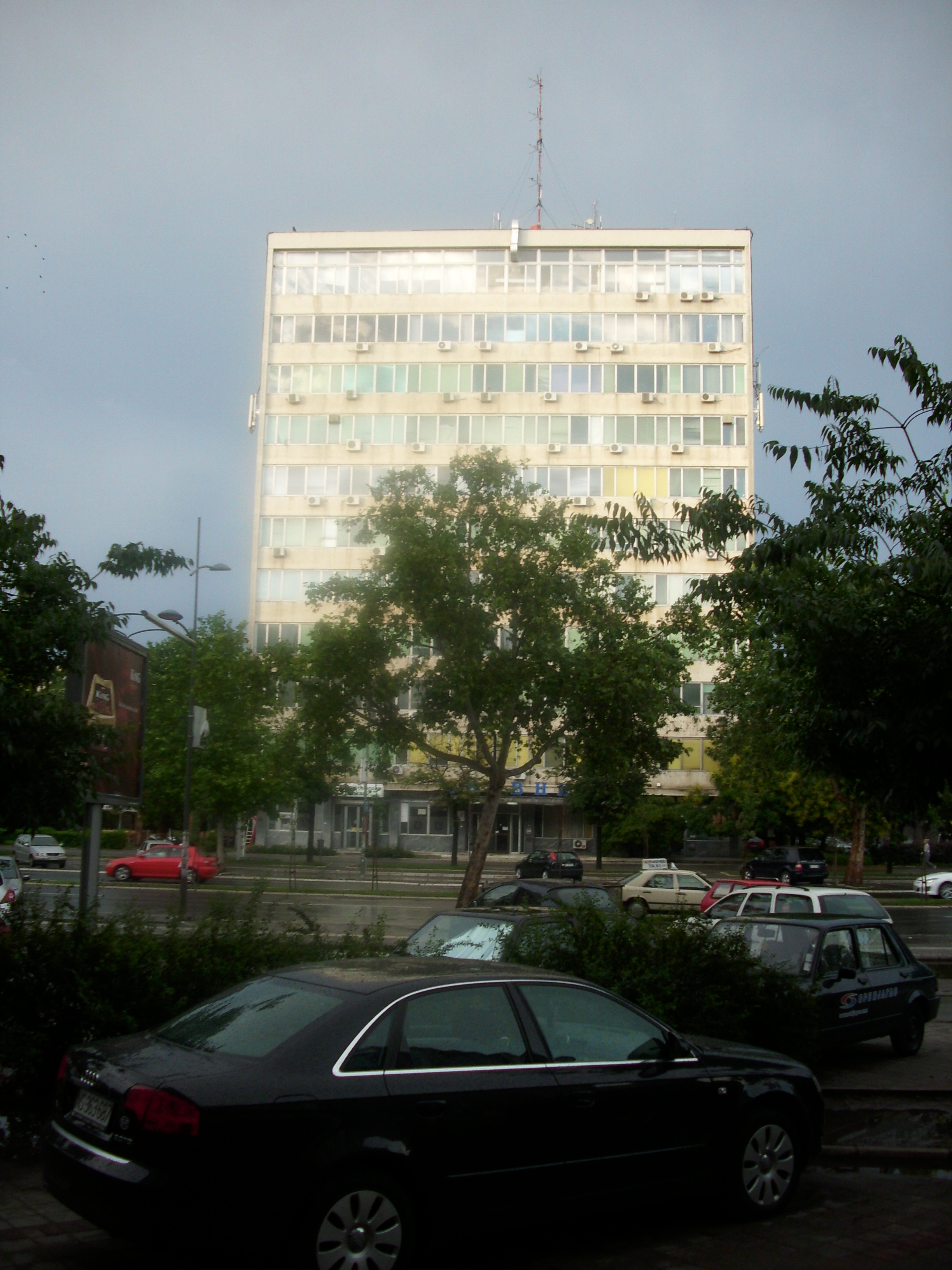 Headquarters of the Dnevnik newspapers in Novi Sad, Serbia